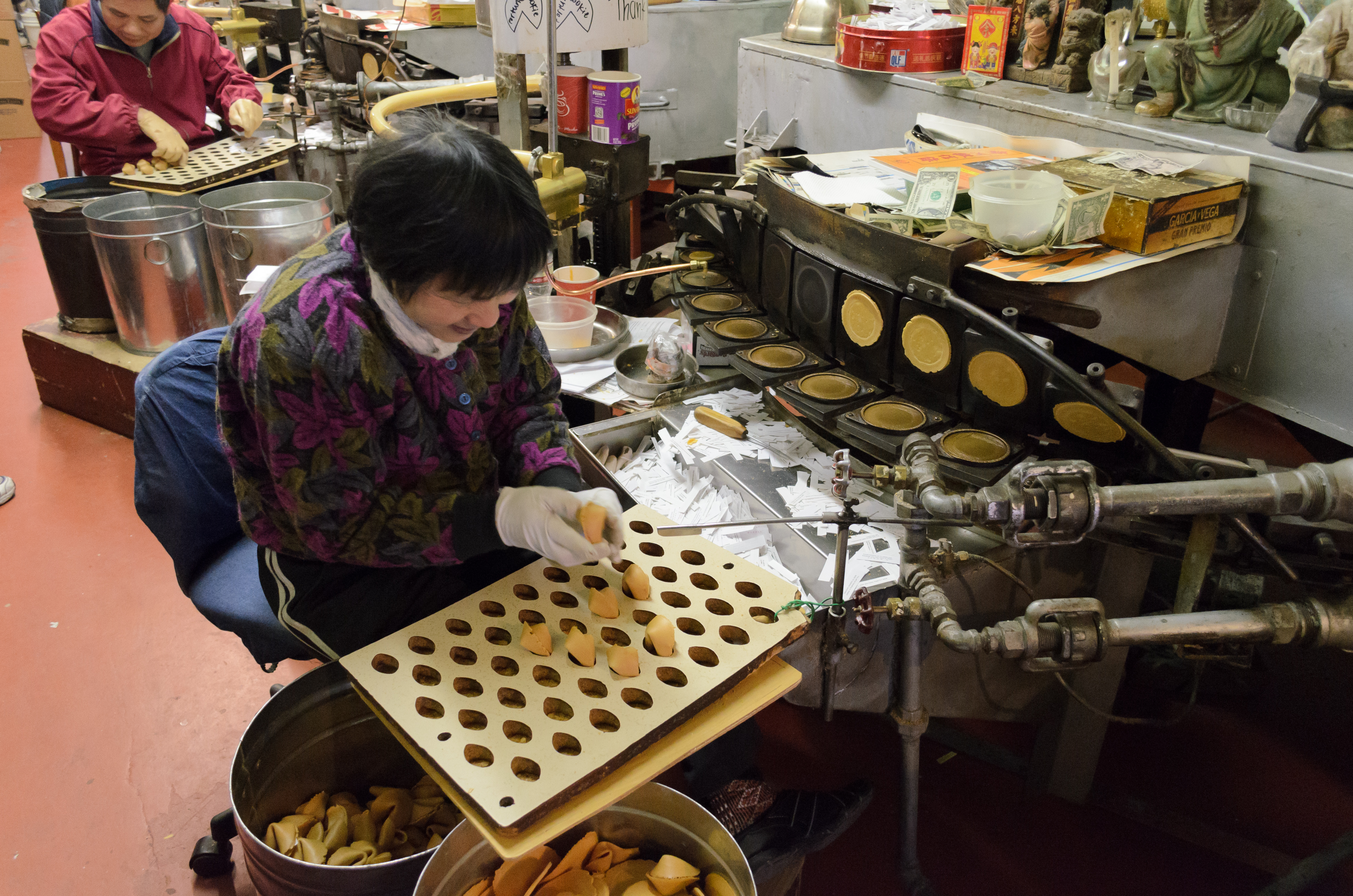 A worker assembles fortune cookies at the Golden Gate Fortune Cookie Company, Chinatown, San Francisco, California.